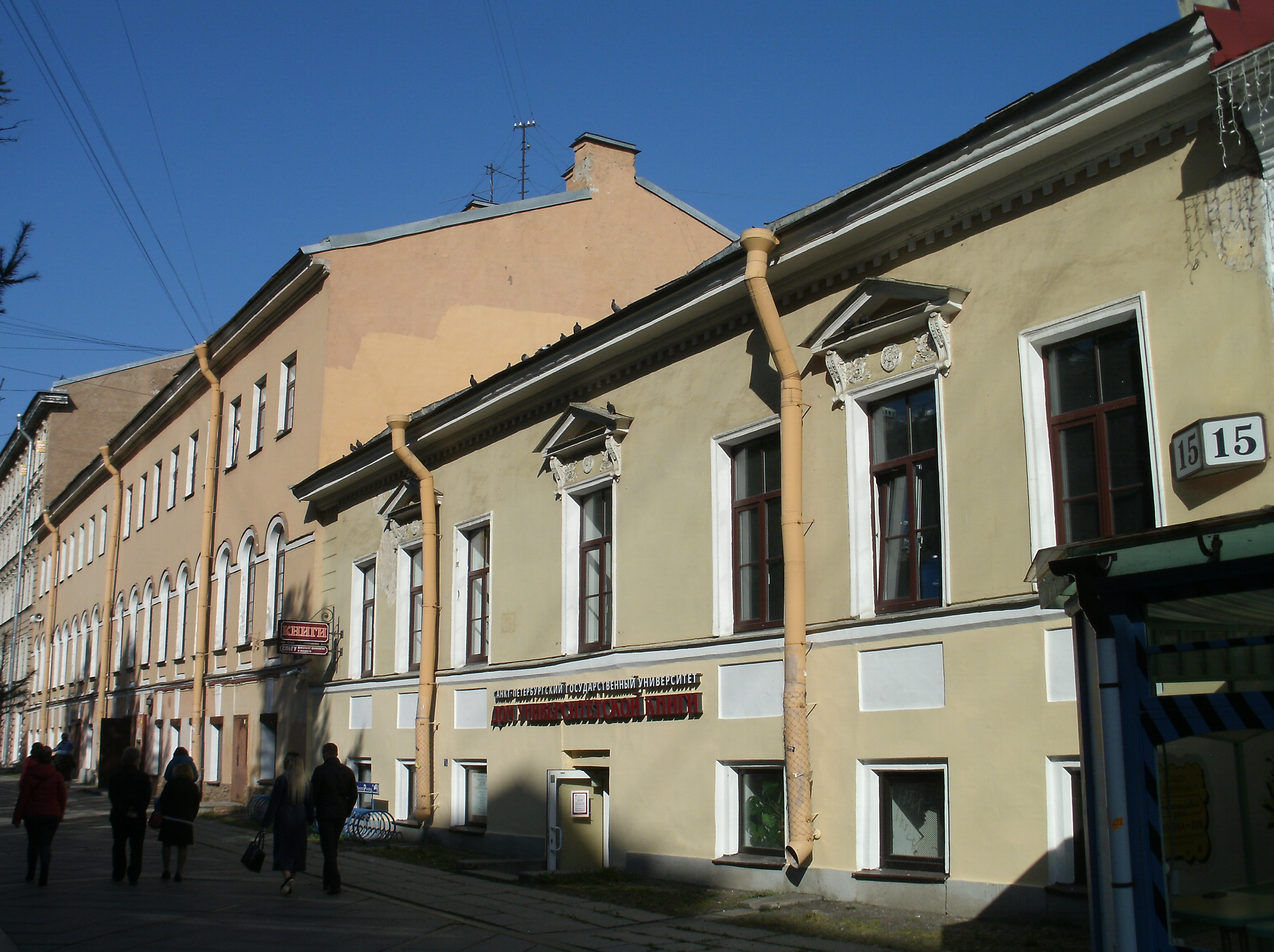 Larinskaya gymnasium; St. Petersburg